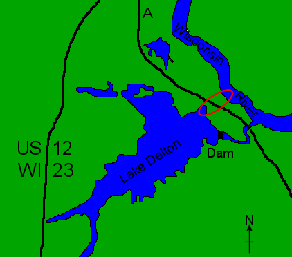 Map of Lake Delton, Wisconsin indicating approximate area of breach and location of the dam. North is up.